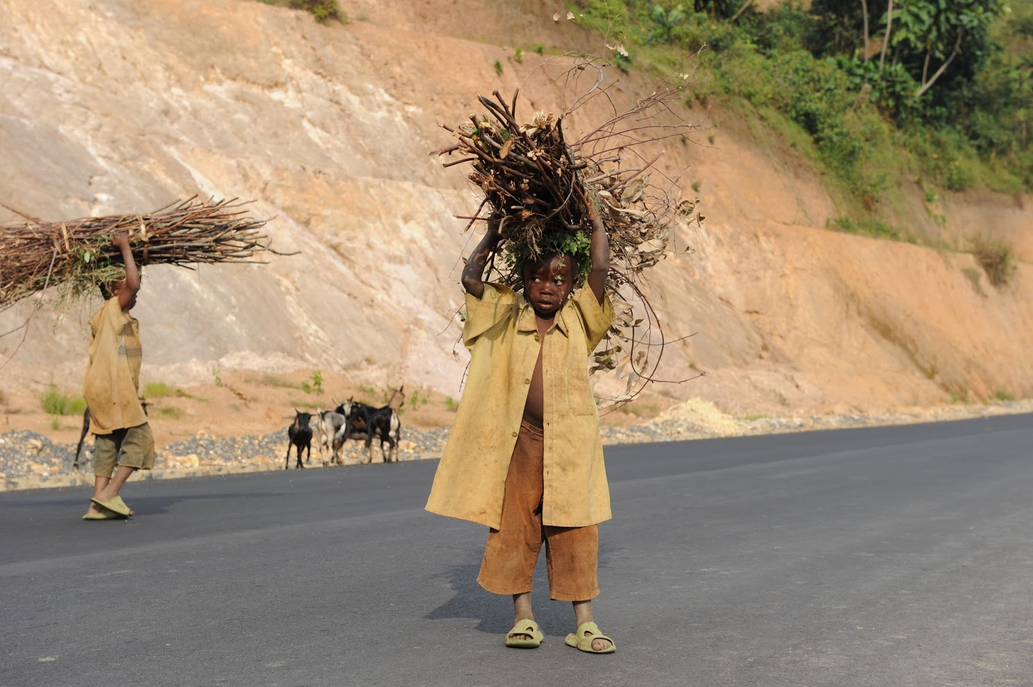 This is an image with the theme "Africa on the Move or Transport" from: Rwanda